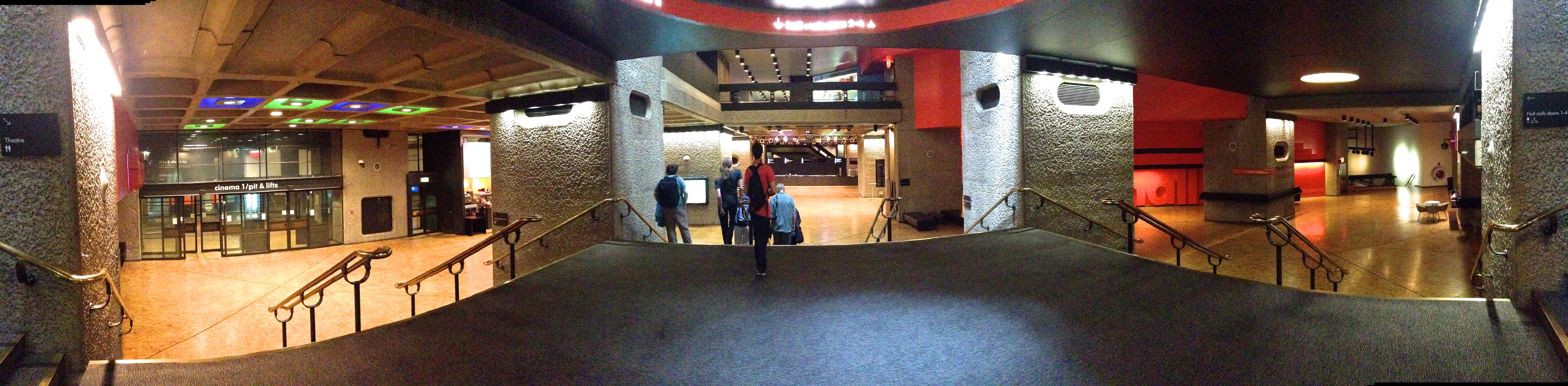 Interior of the Barbican Centre